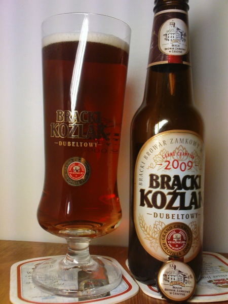 Bracki Doppelbock, Grand Champion Birofilia 2009